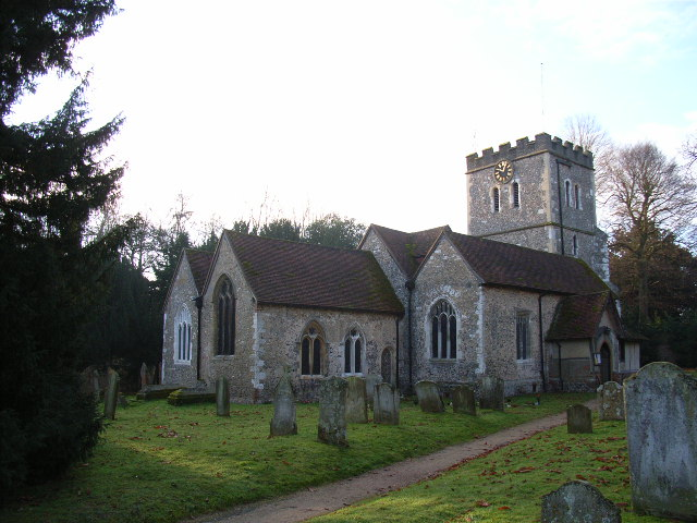 Church of England parish church of St John the Baptist, Little Marlow, Buckinghamshire: view from the northeast